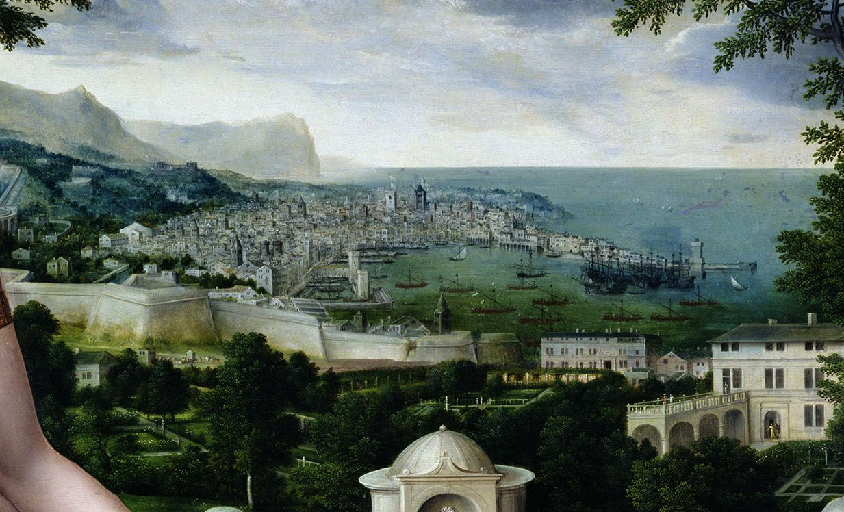 Crop of Venus van Cythera, by Jan_Massys of Metsys. The crop show a view of Genoa.